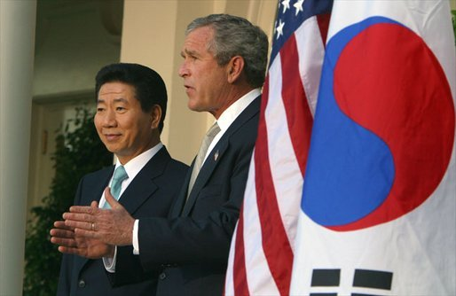 U.S. President George W. Bush and South Korean President Roh Moo-hyun in the Rose Garden on May 14, 2003. White House photo by Paul Morse.